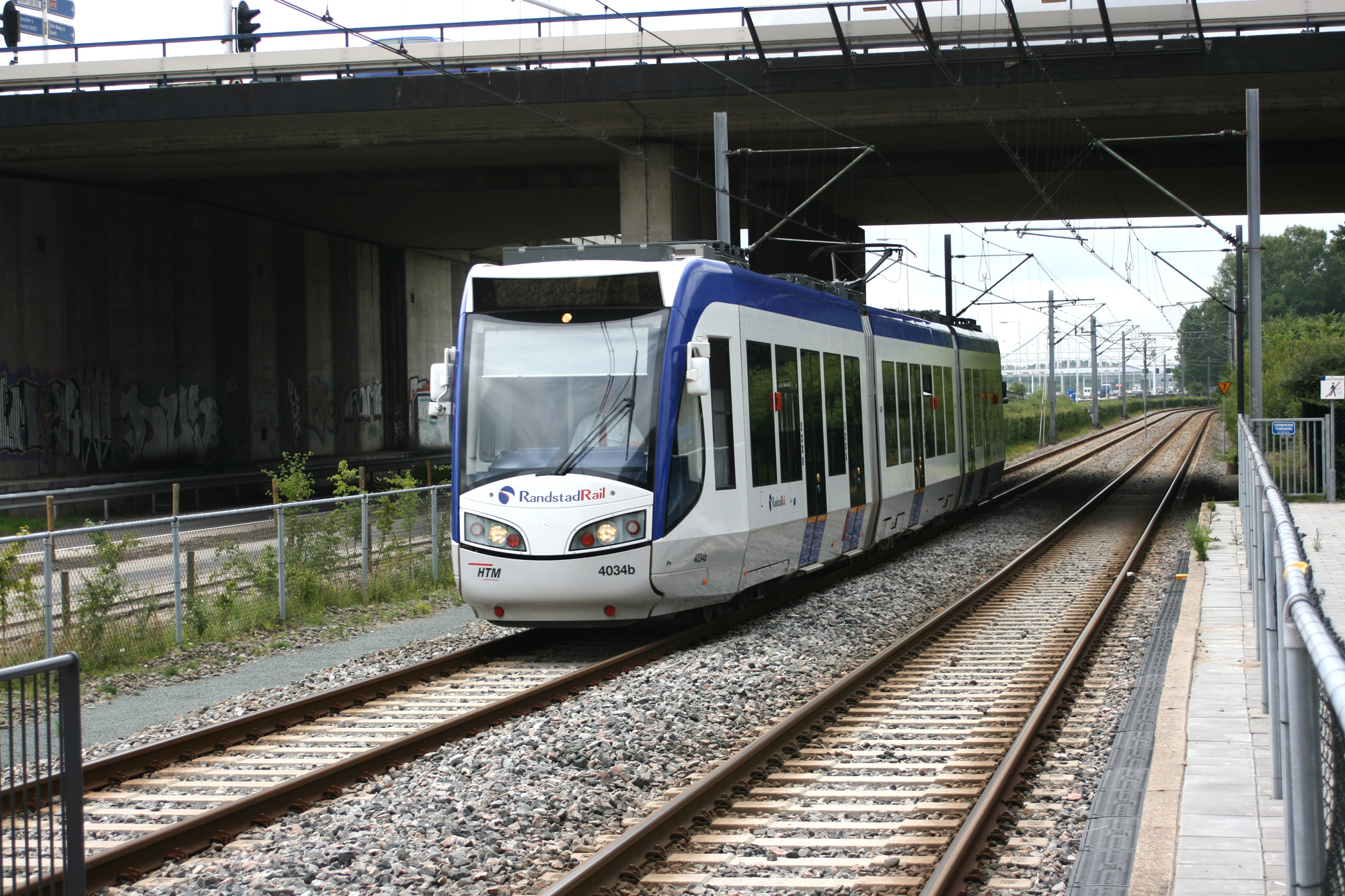 A Randstadrail tram near Driemanspolder, Zoetermeer